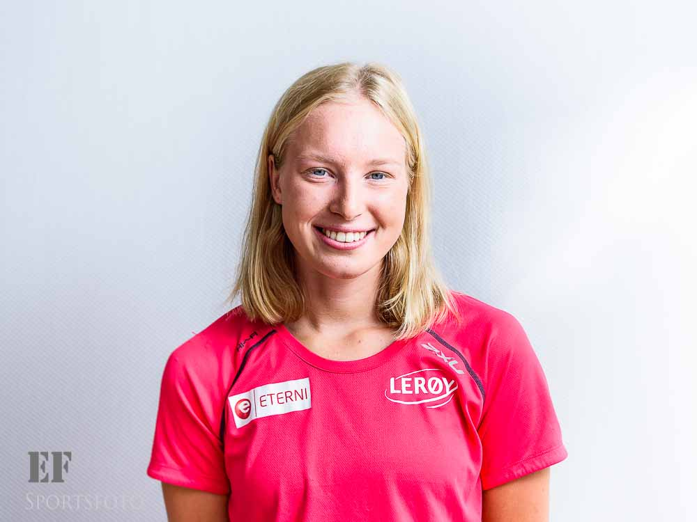 Norwegian Speedskater